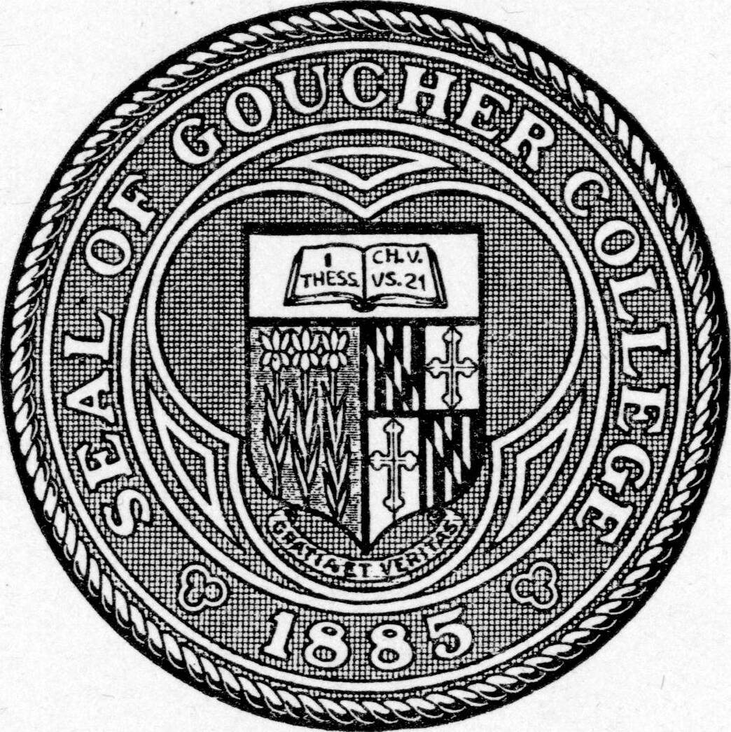 Goucher's historical seal circa 1923